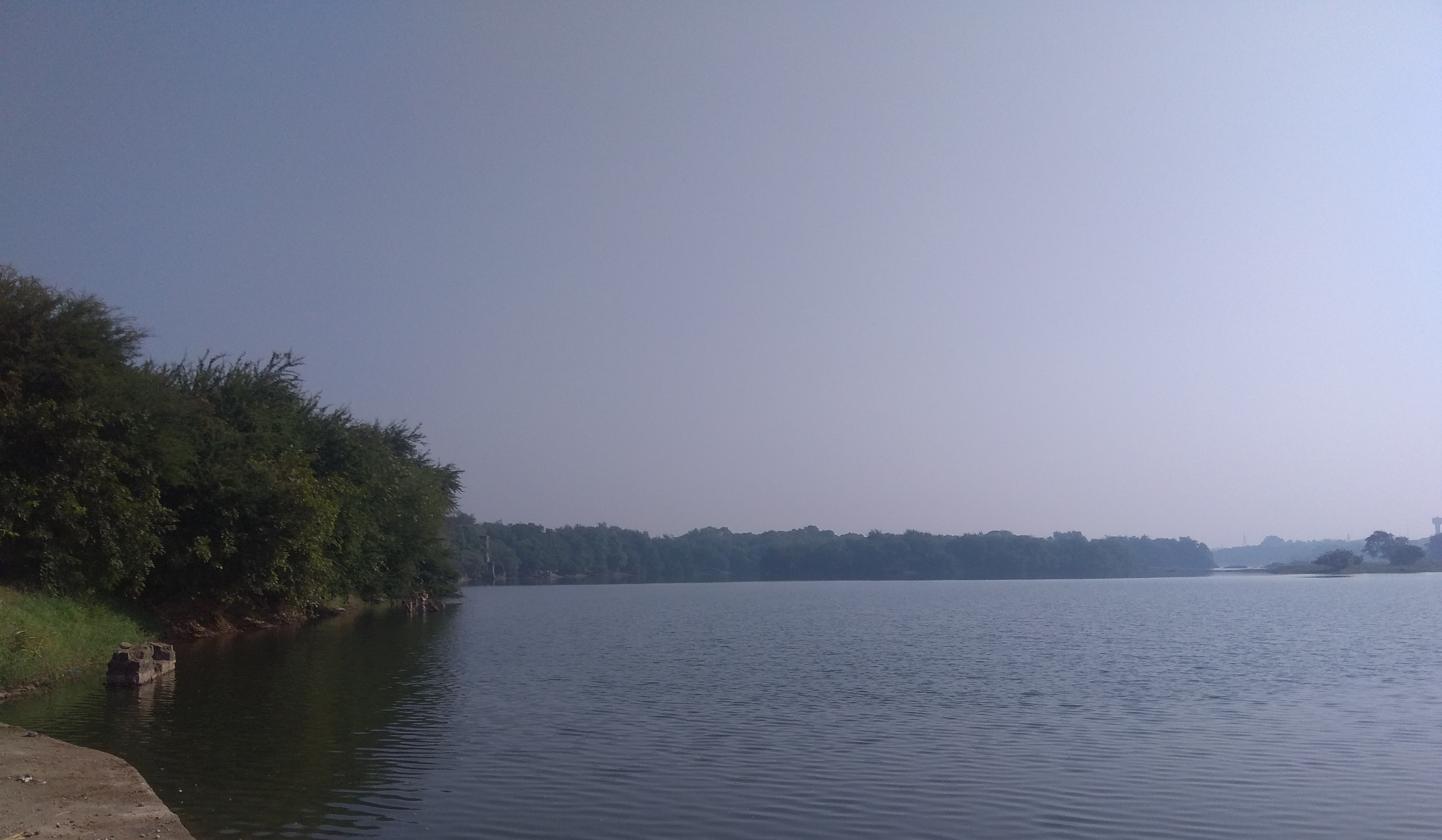 Par River near Atul Check Dam